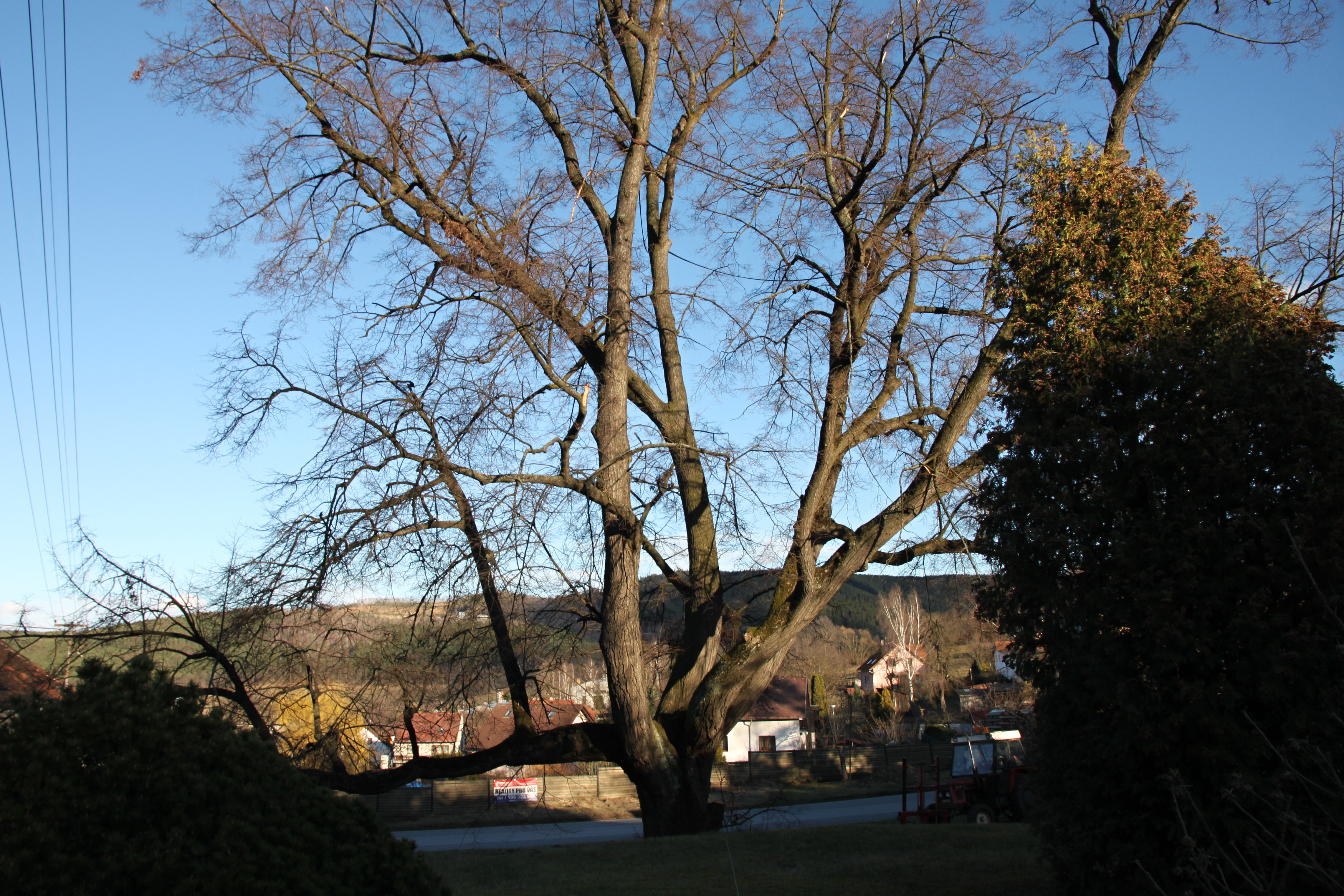 Tilia platyphyllos, famous tree in Staré Prachatice, part of Prachatice, South Bohemia, Czechia.